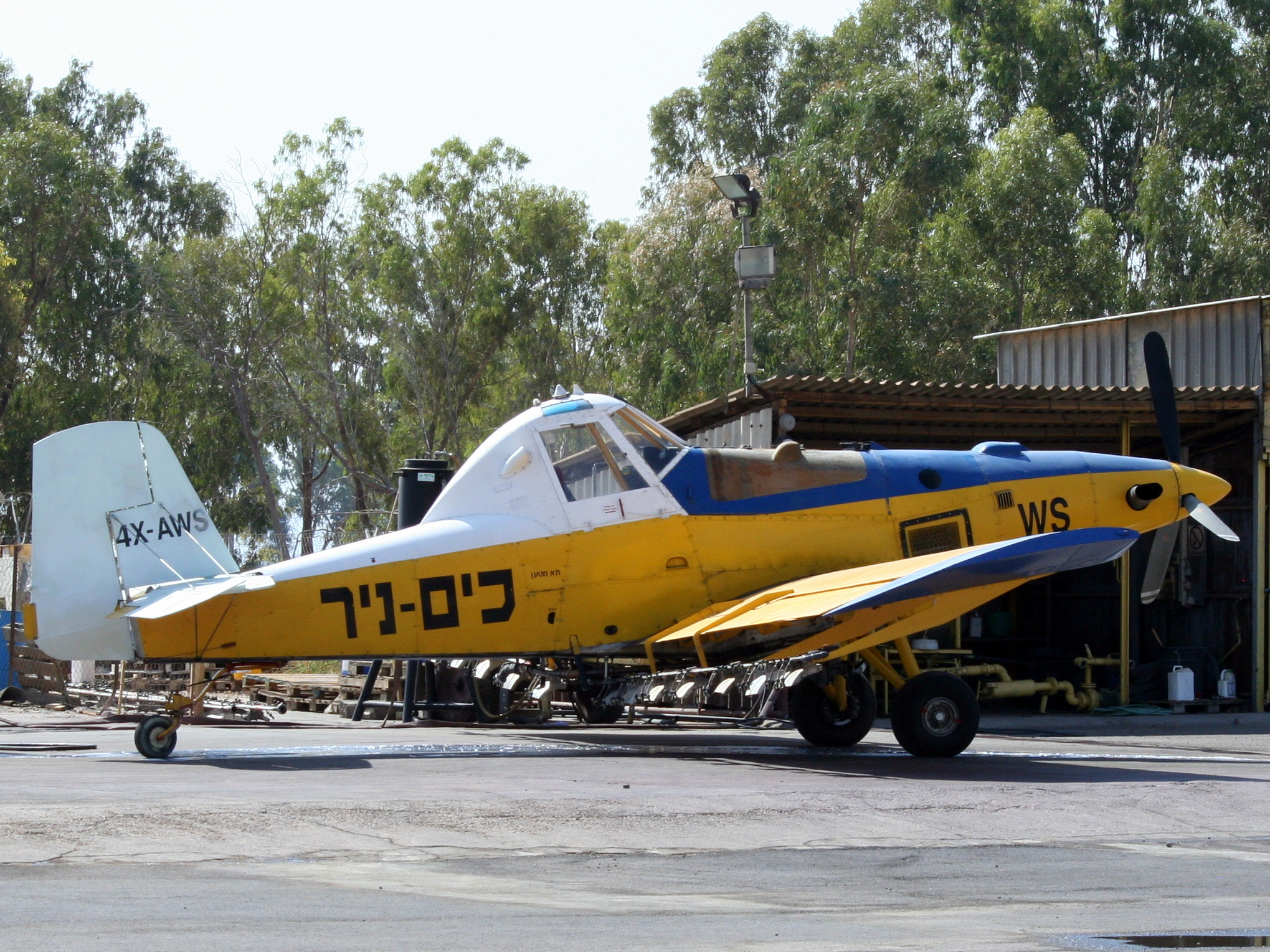 At Megido airstrip